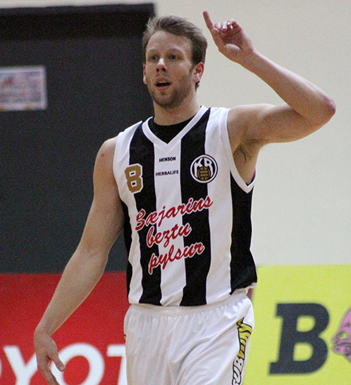 KR's Björn Kristjánsson in a game against Keflavík on 29 January 2015.